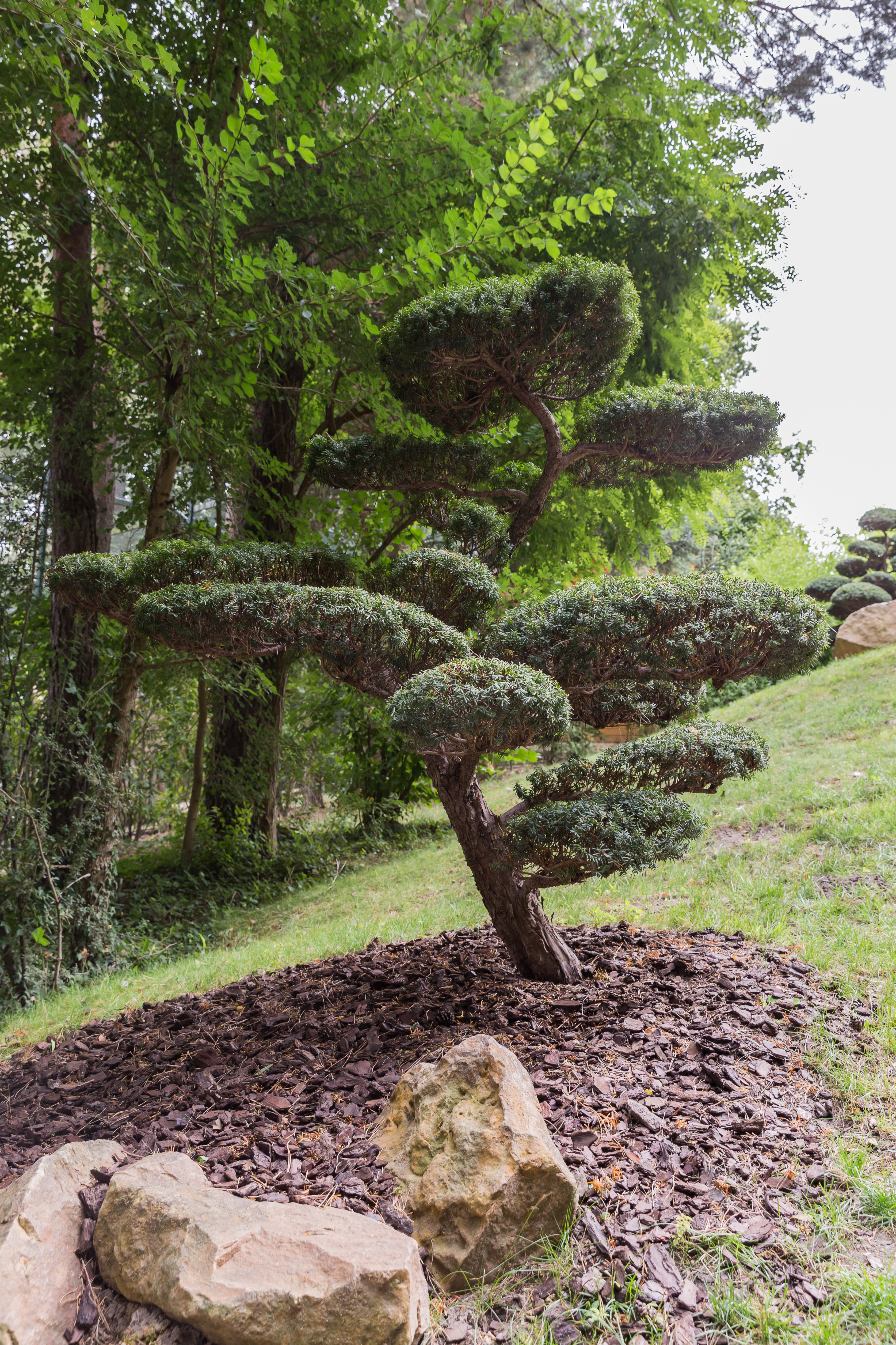 Taxus baccata (European yew) in the ZooParc de Beauval in Saint-Aignan-sur-Cher, France.